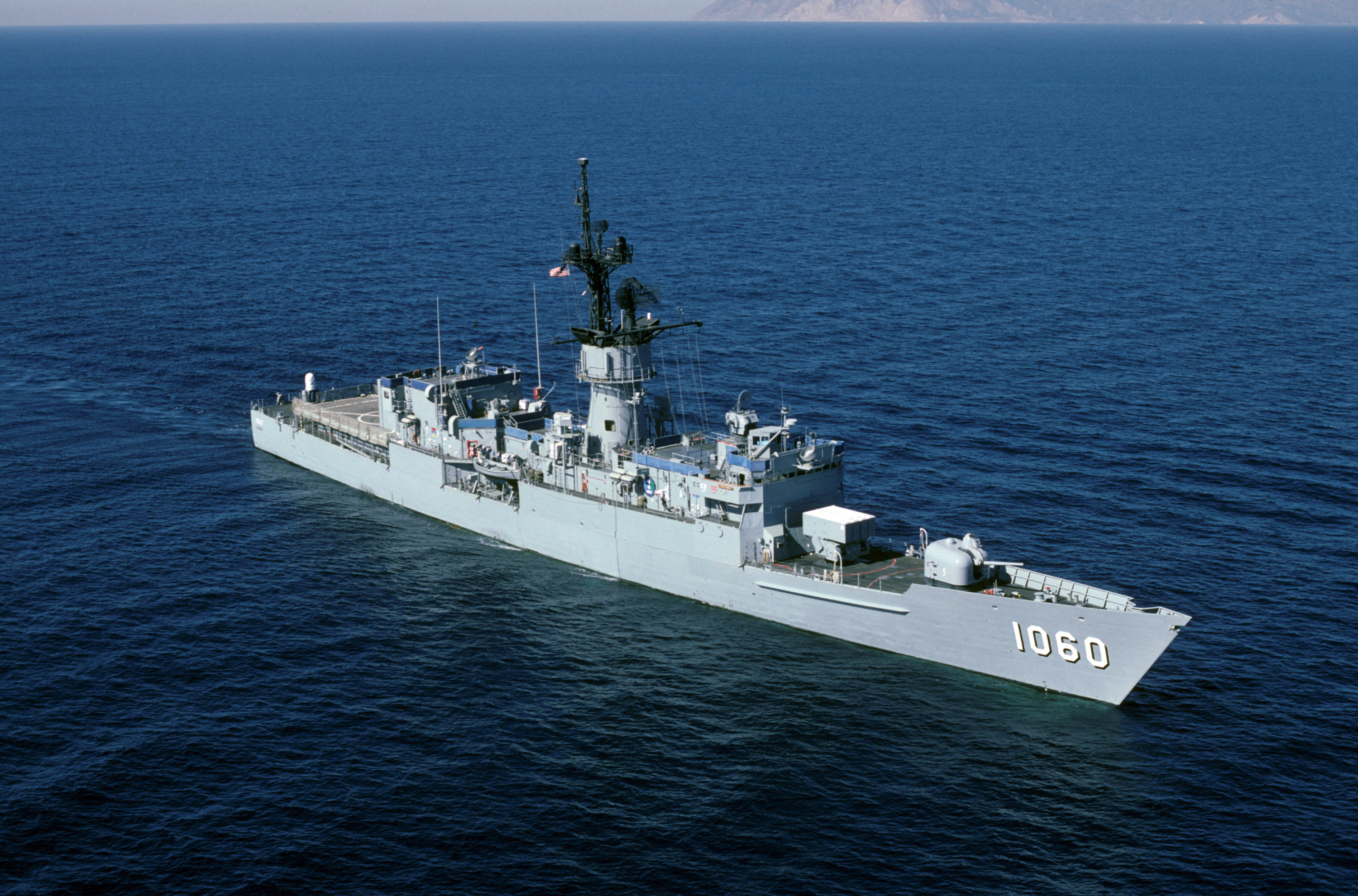 The U.S. Navy the frigate USS Lang (FF-1060) underway on 1 October 1985.